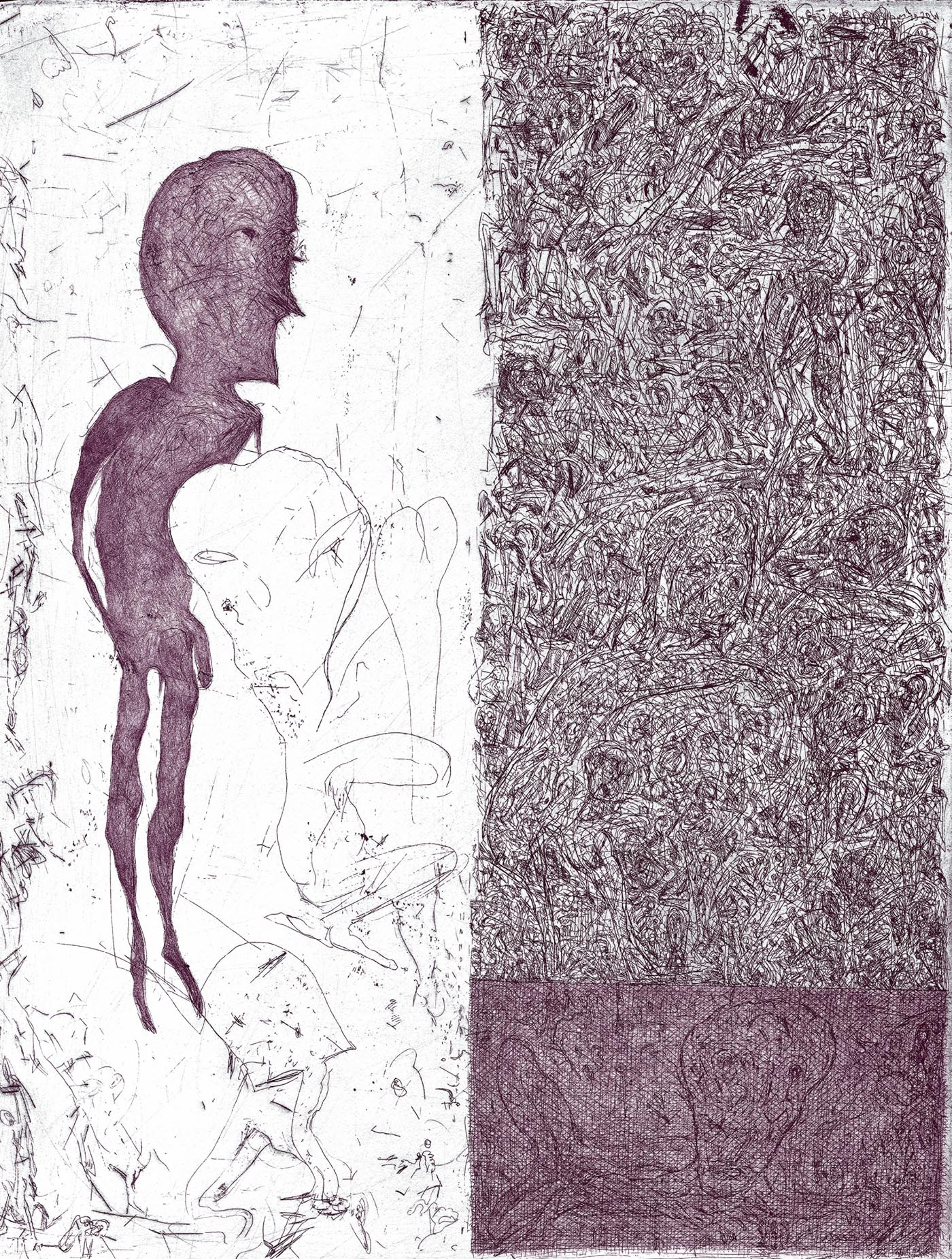 Felix Waske: Etching No. 69 from the book "75 Radierungen 1994-2003"